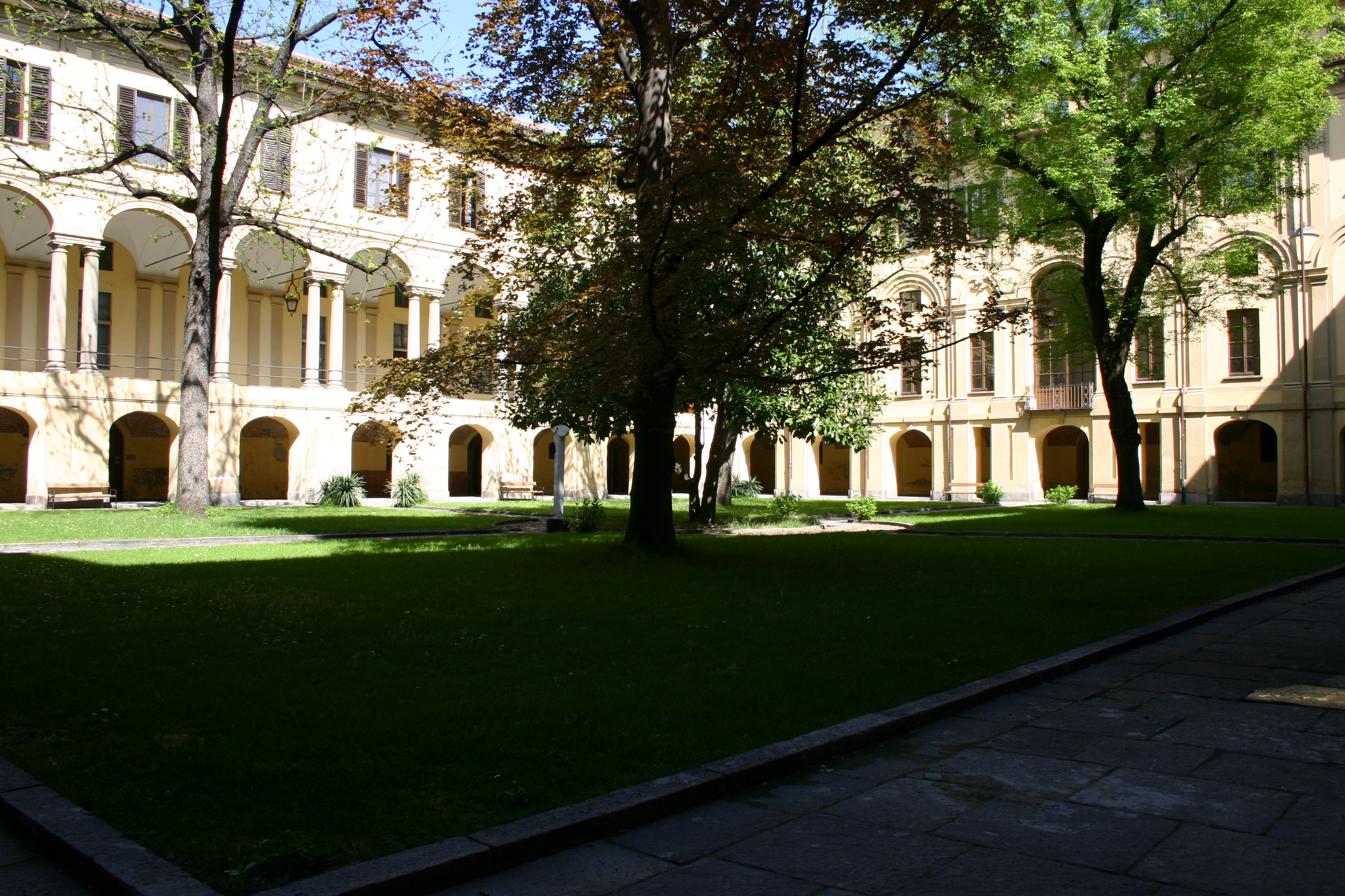 giardino interno collegio cairoli